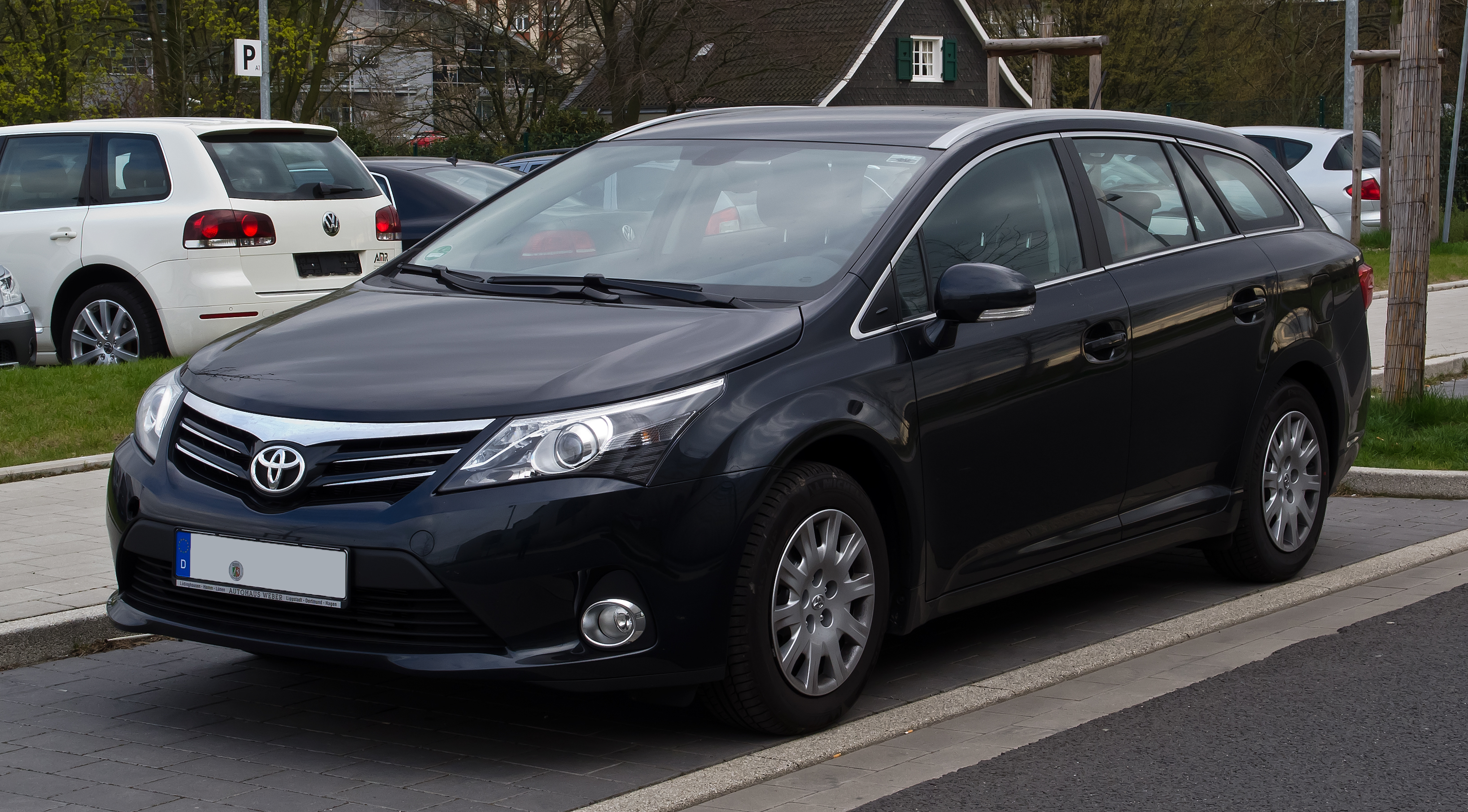 Toyota Avensis Combi (III, Facelift)